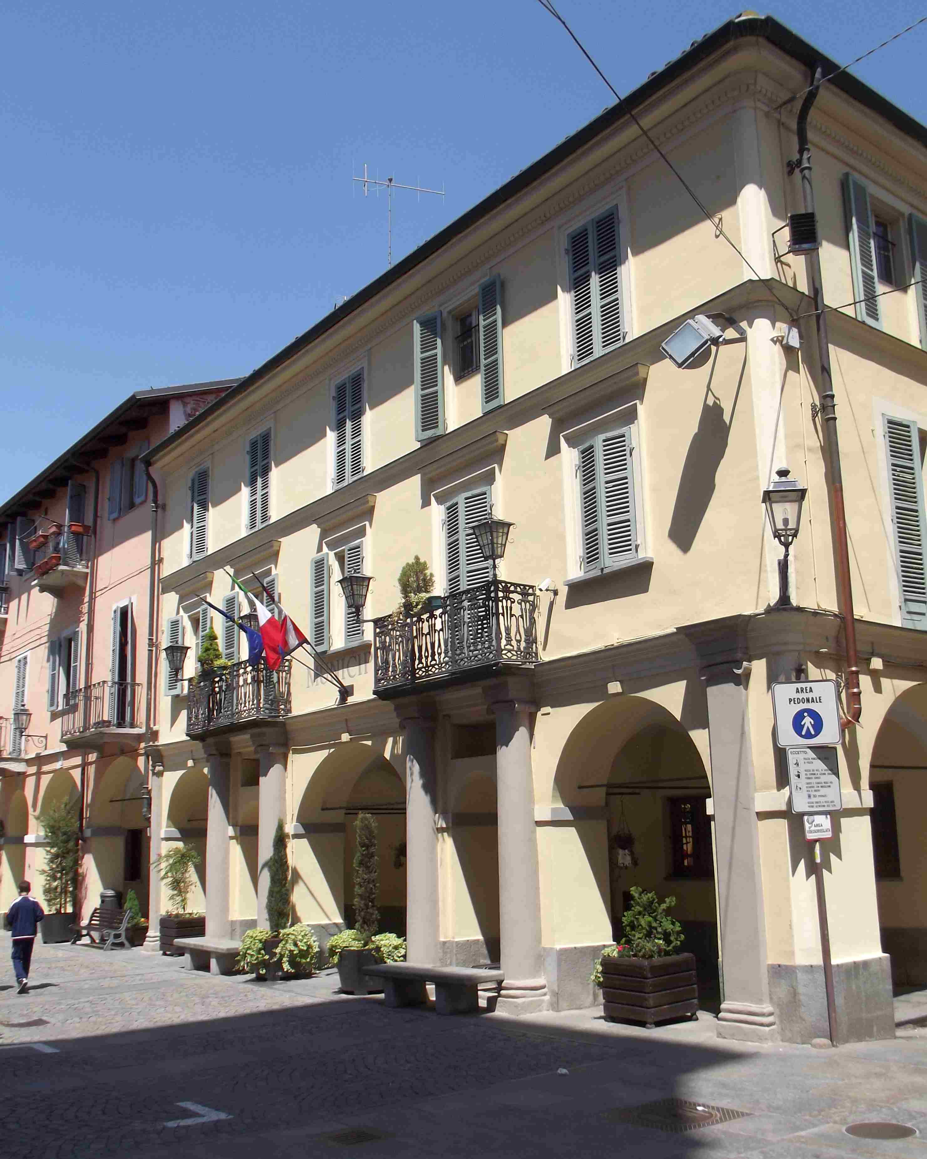 Gassino (TO, Italy): town hall